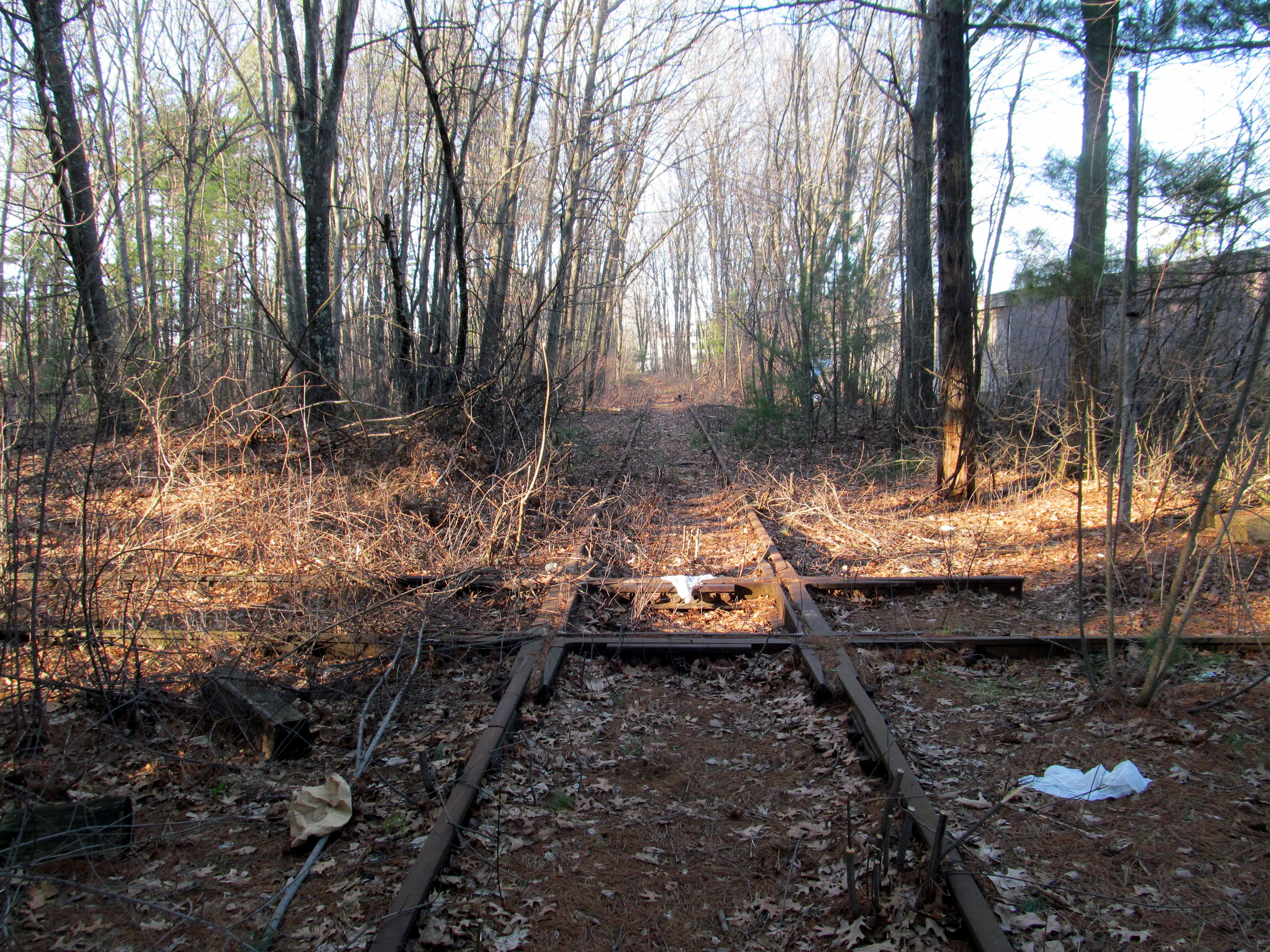 Former diamond crossing at South Sudbury station in April 2016